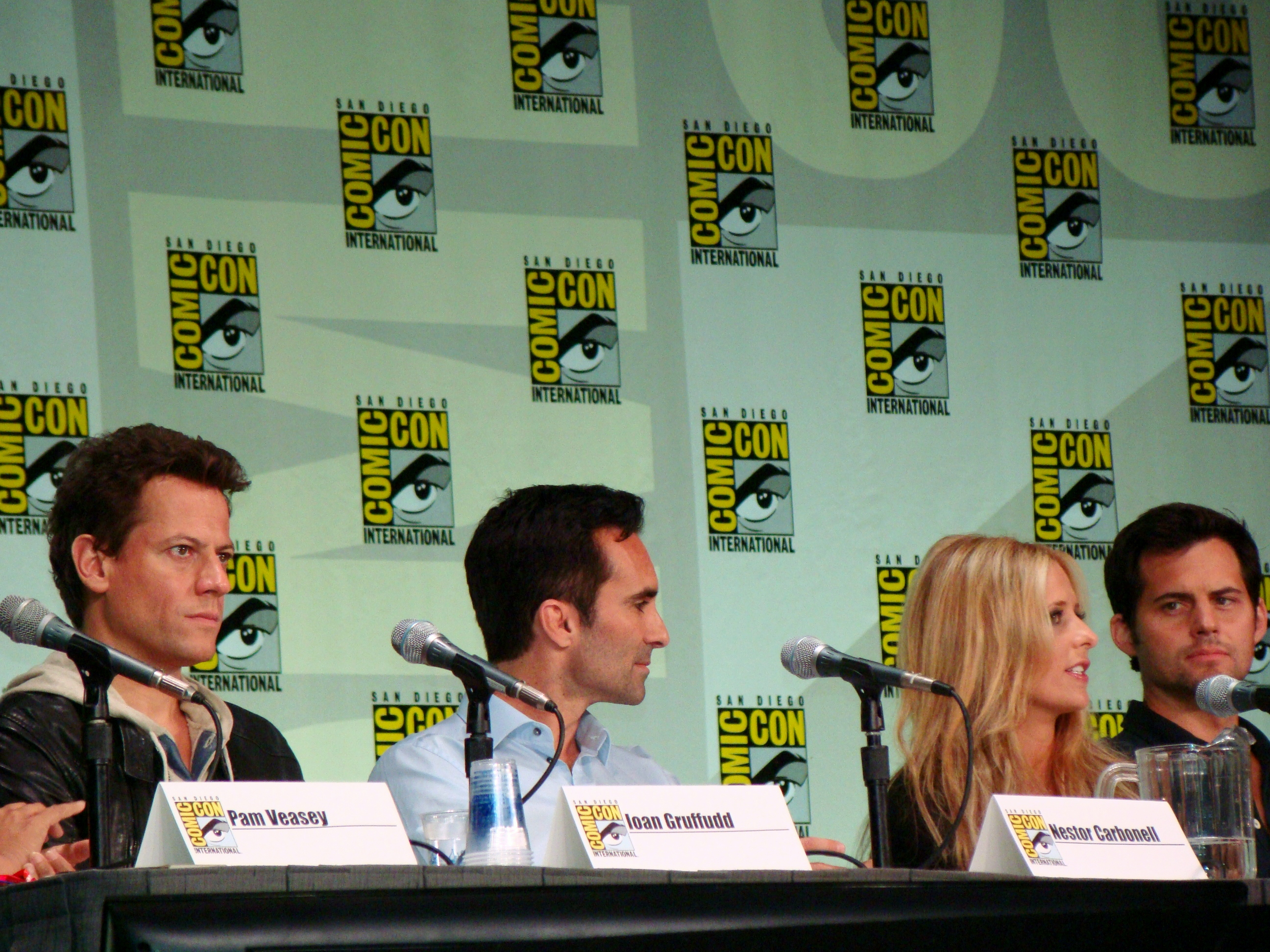 Ioan Gruffudd, Nestor Carbonell, Sarah Michelle Gellar and Kristoffer Polaha at Ringer Panel at the 2011 Comic-Con International